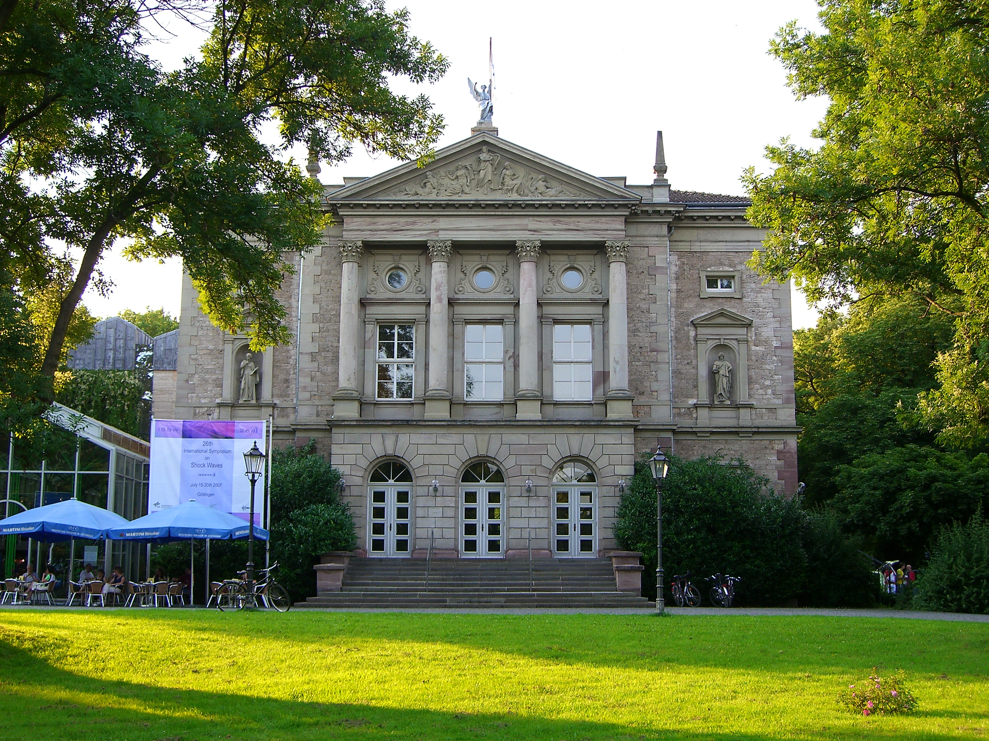 'Deutsches Theater' (theatre) in Göttingen.